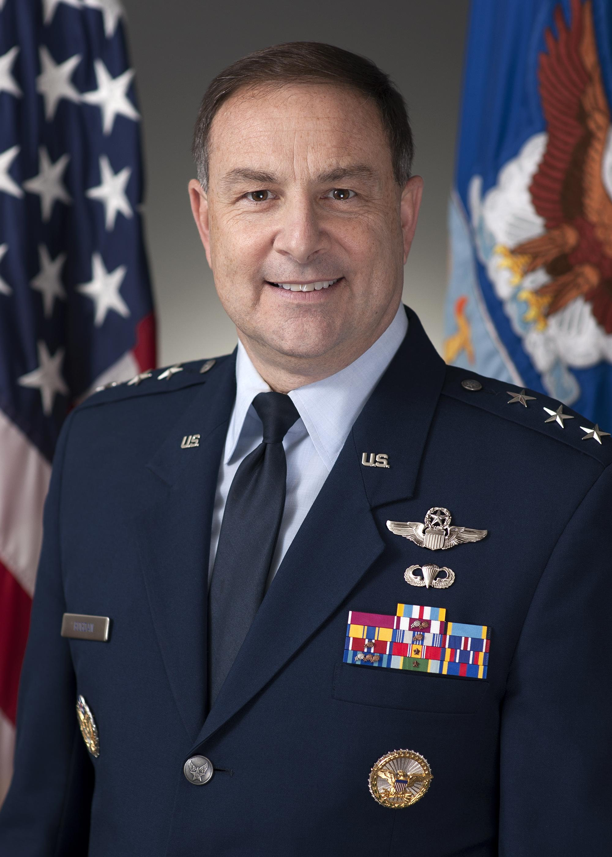 LIEUTENANT GENERAL CHRISTOPHER C. BOGDAN USAF,Program Executive Officer for the F-35 Lightning II Joint Program Office